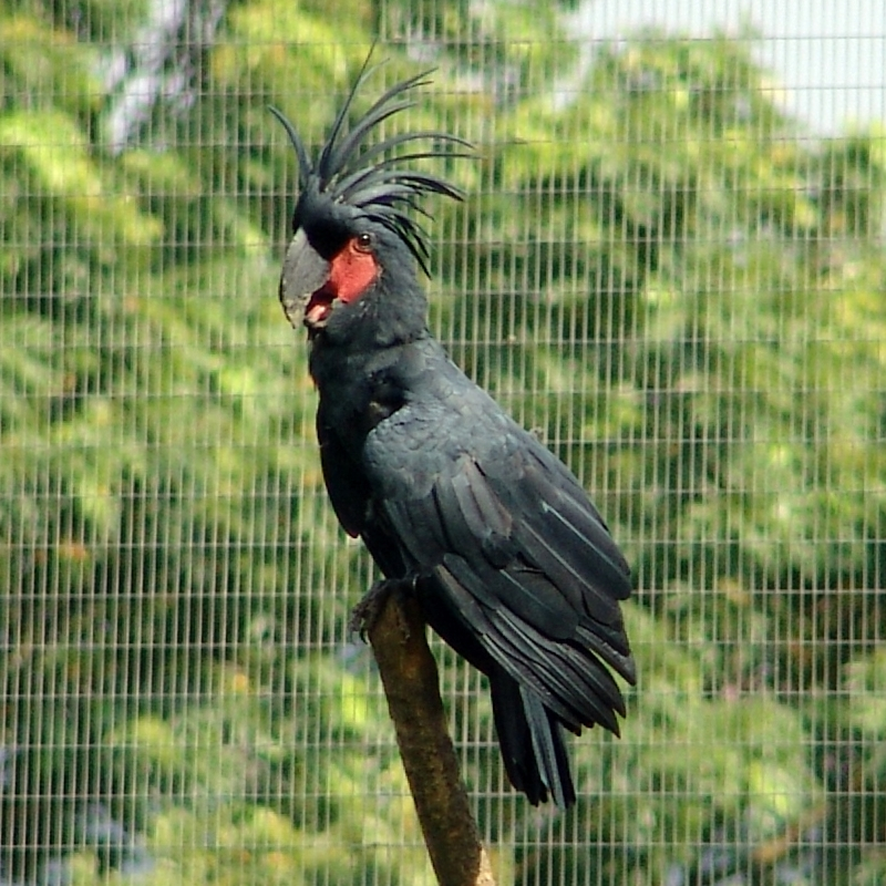 Palm Cockatoo (also known as the Goliath Cockatoo) at Jurong Bird Park, Singapore.